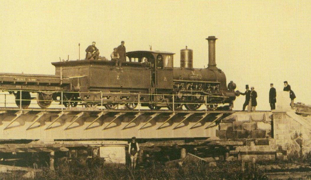 A steam engine of the Warsaw-Terespol Railway, Russian Empire (Polish territory), built by Sigl (Wiener Neustädter Lokomotivfabrik), designated as series Зп (Zp) on the railway. Incorrectly described as Brassey Steam Engine (Brassey did not manufacture locomotives).